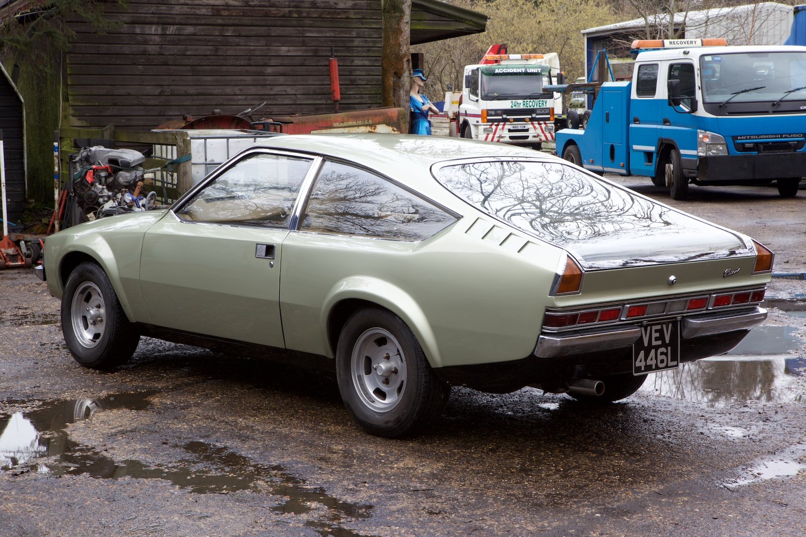 Ford Cirrus, Daily Telegraph Magazine competition car, built by Woodall Nicholson Ltd and Triplex Safety Glass Ltd. Designed by Michael Moore.